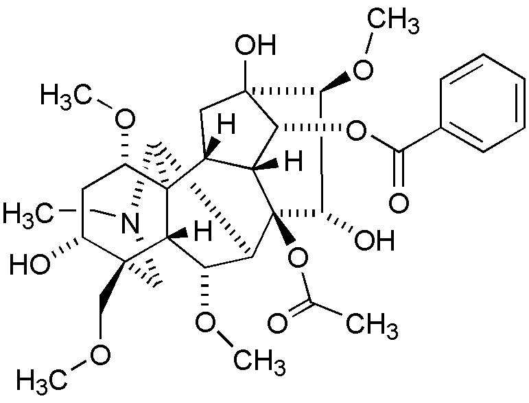 Summary structure of aconitine; corrects sterochemistry Srychnov 17:53, 1 September 2006 (UTC)